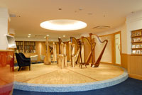 ginza jujiya harp and flute salon